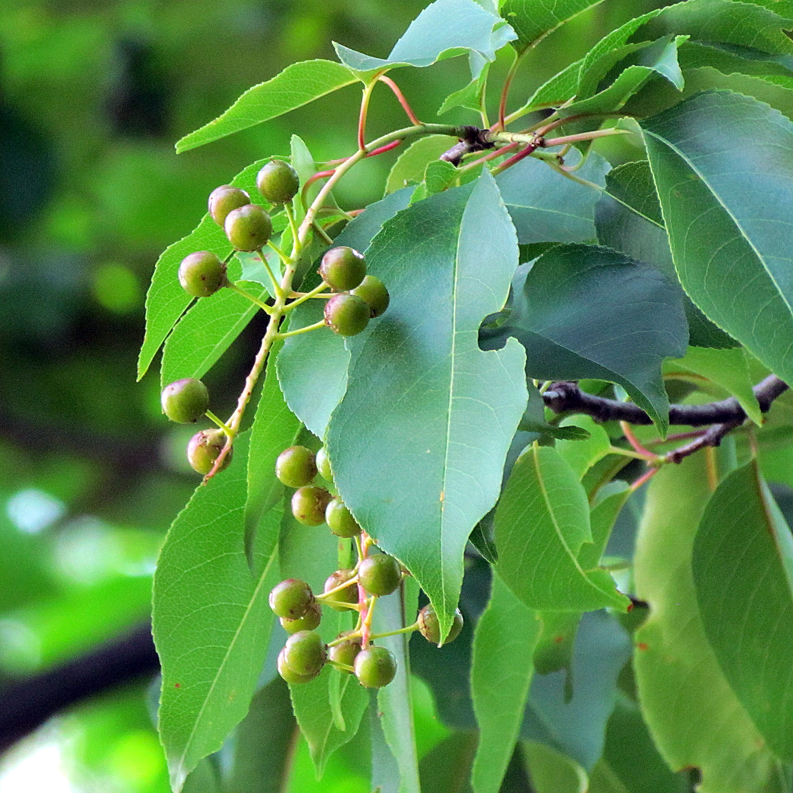 Prunus serotina unripe fruits